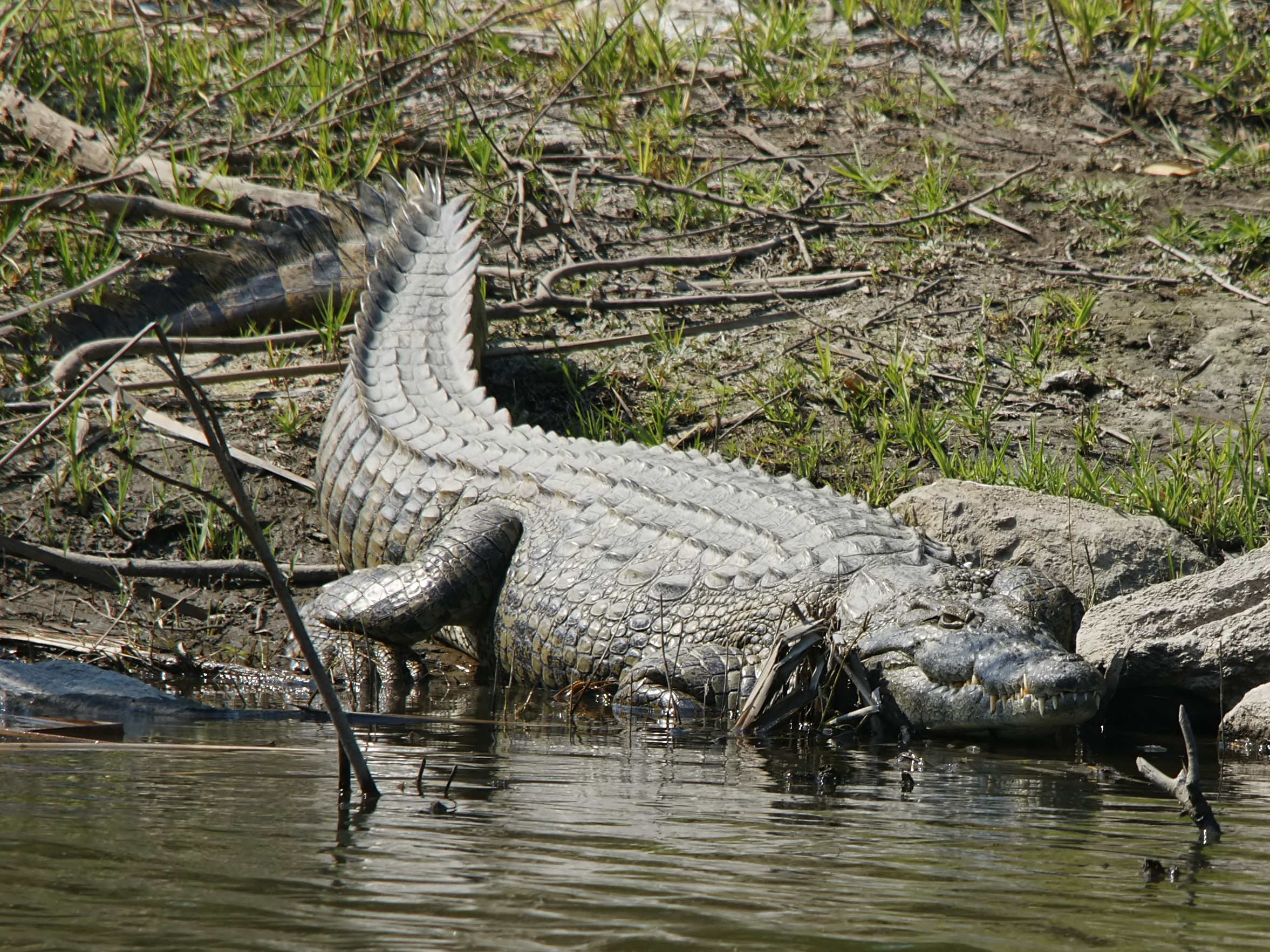 Nile crocodile near the Kafue river close to Kitwe, Zambia.